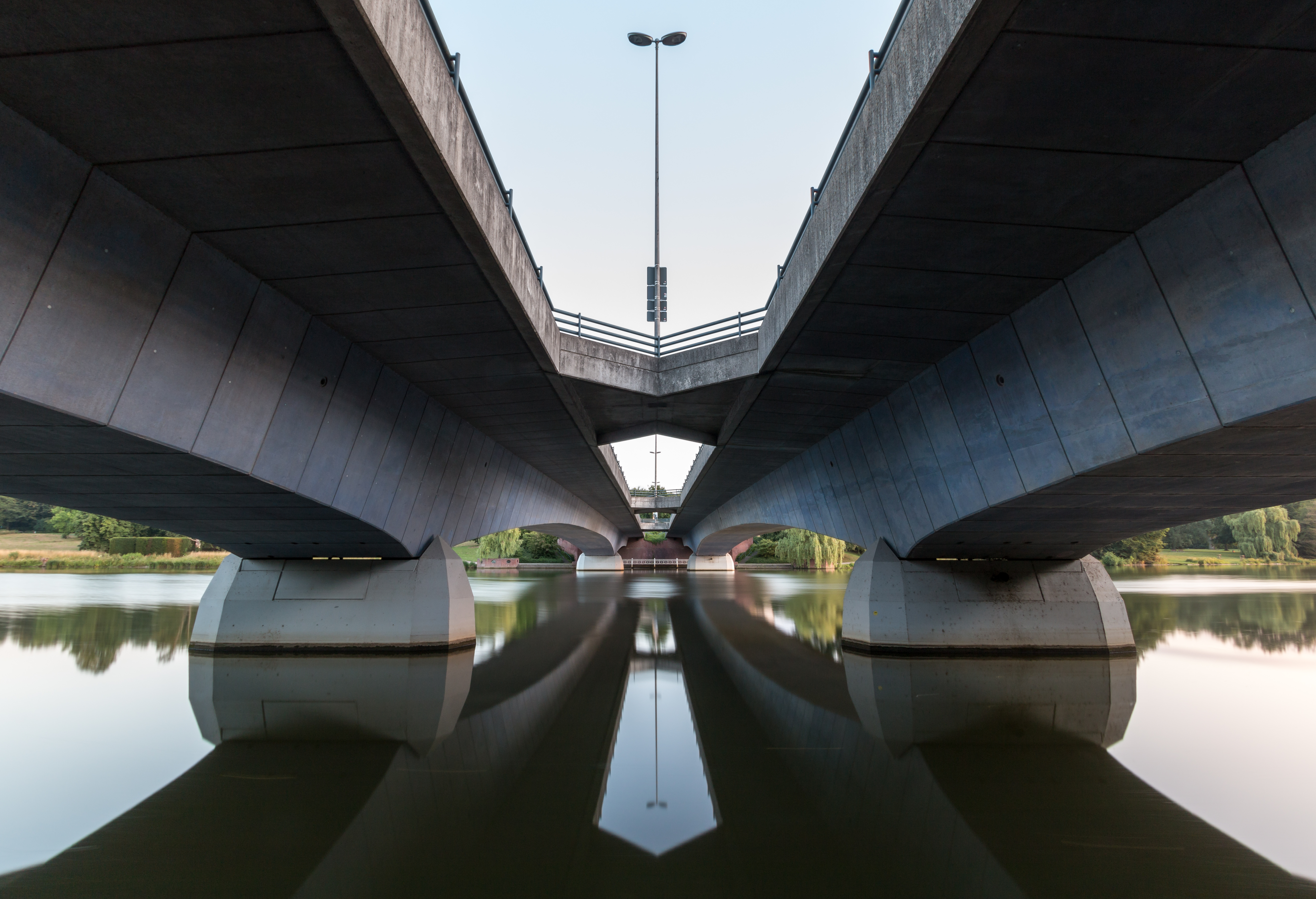 Tormin Bridge (at sunrise), Münster, North Rhine-Westphalia, Germany